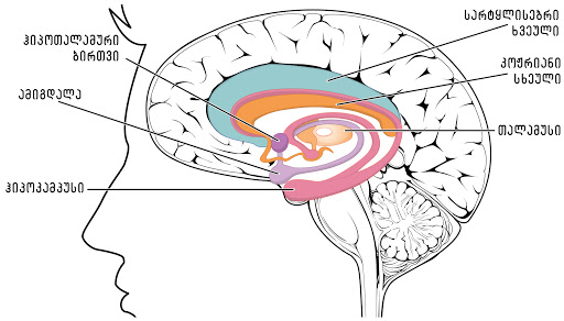 Illustration from Anatomy & Physiology, Connexions Web site. Jun 19, 2013.